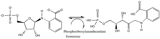 Chemical reaction of N-(5-phospho-beta-D-ribosyl)anthranilate becoming 1-(2-carboxyphenylamino)-1-deoxy-D-ribulose 5-phosphate as catalyzed by Phosphoribosylanthranilate_isomerase